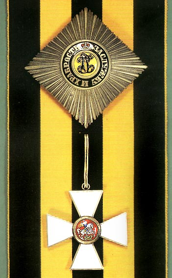 Order of St. George